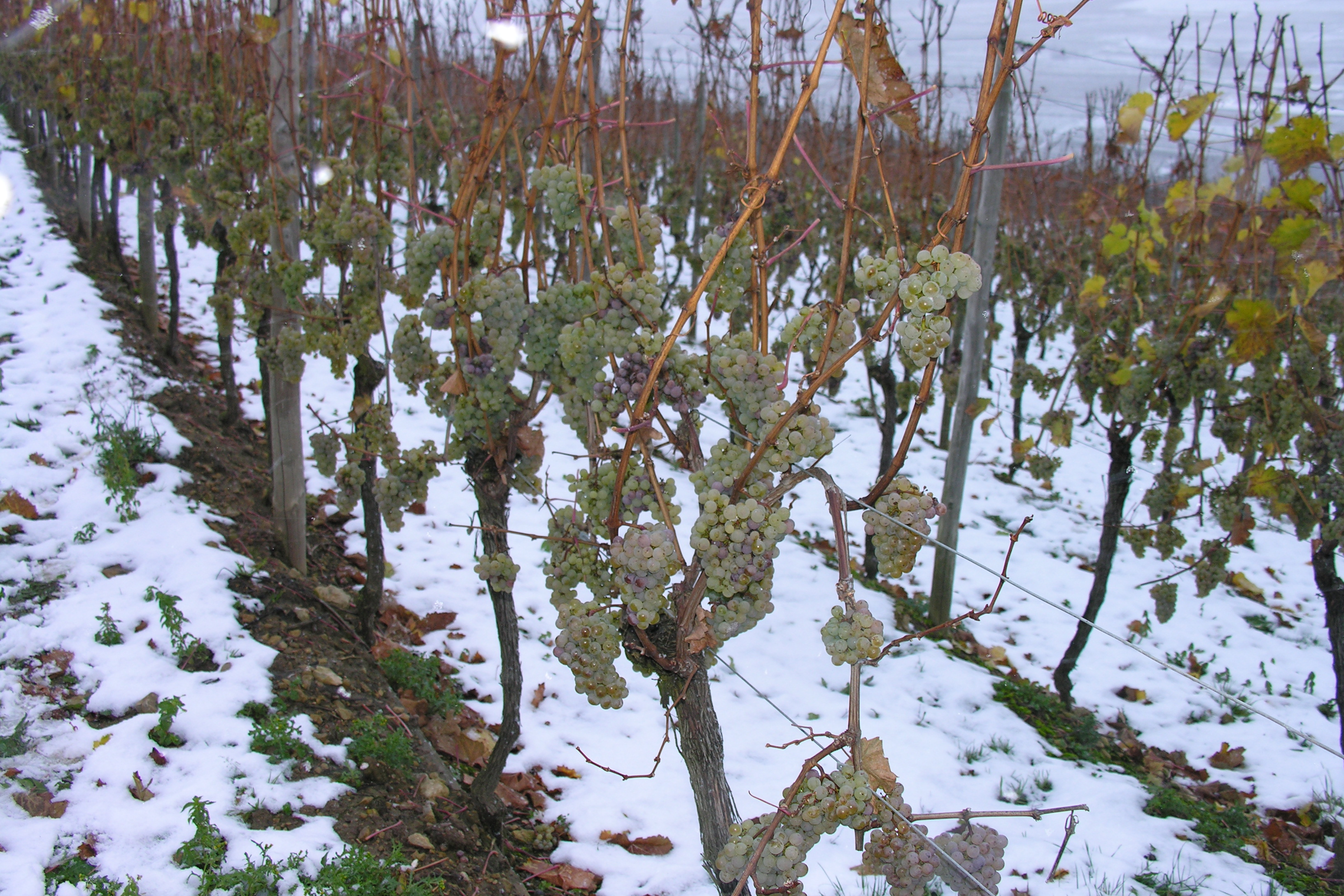 Grapes destined for Icewine (Eisewein) production in Luxembourg